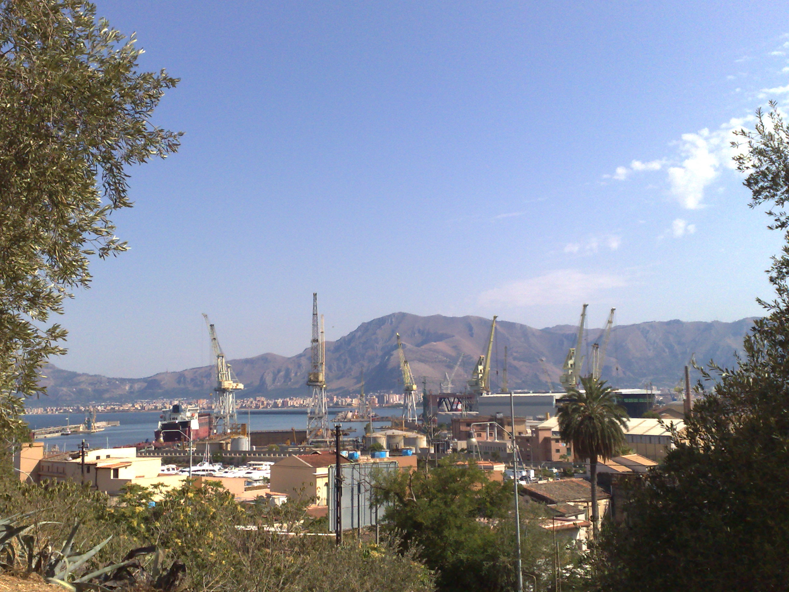 Ship building in Palermo